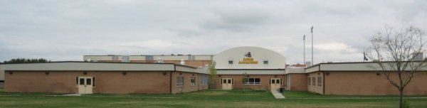 Photograph of Laurel Senior High School (MT), taken on 09/01/11 from First Avenue.